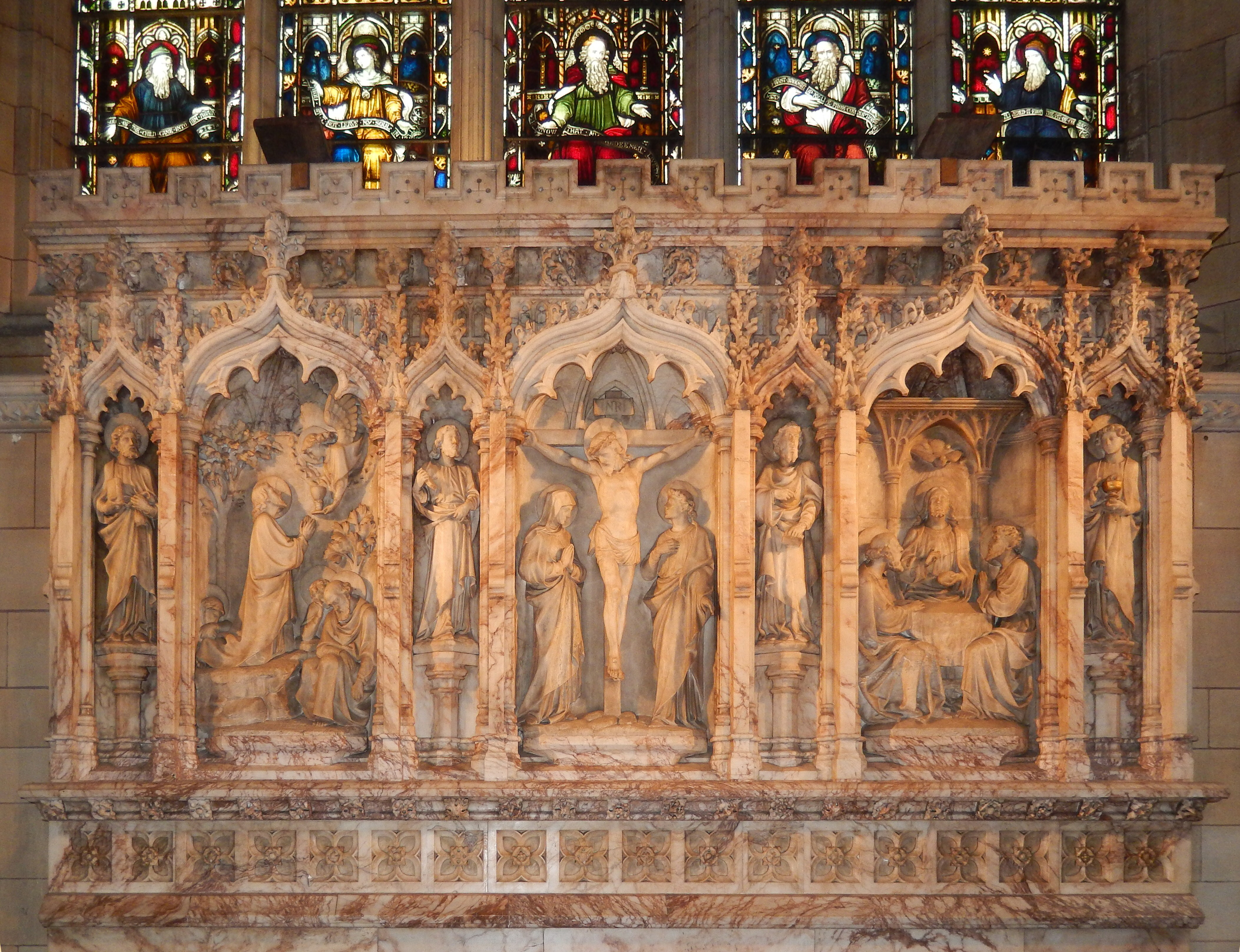 St Nicholas Chiswick stone screen above altar